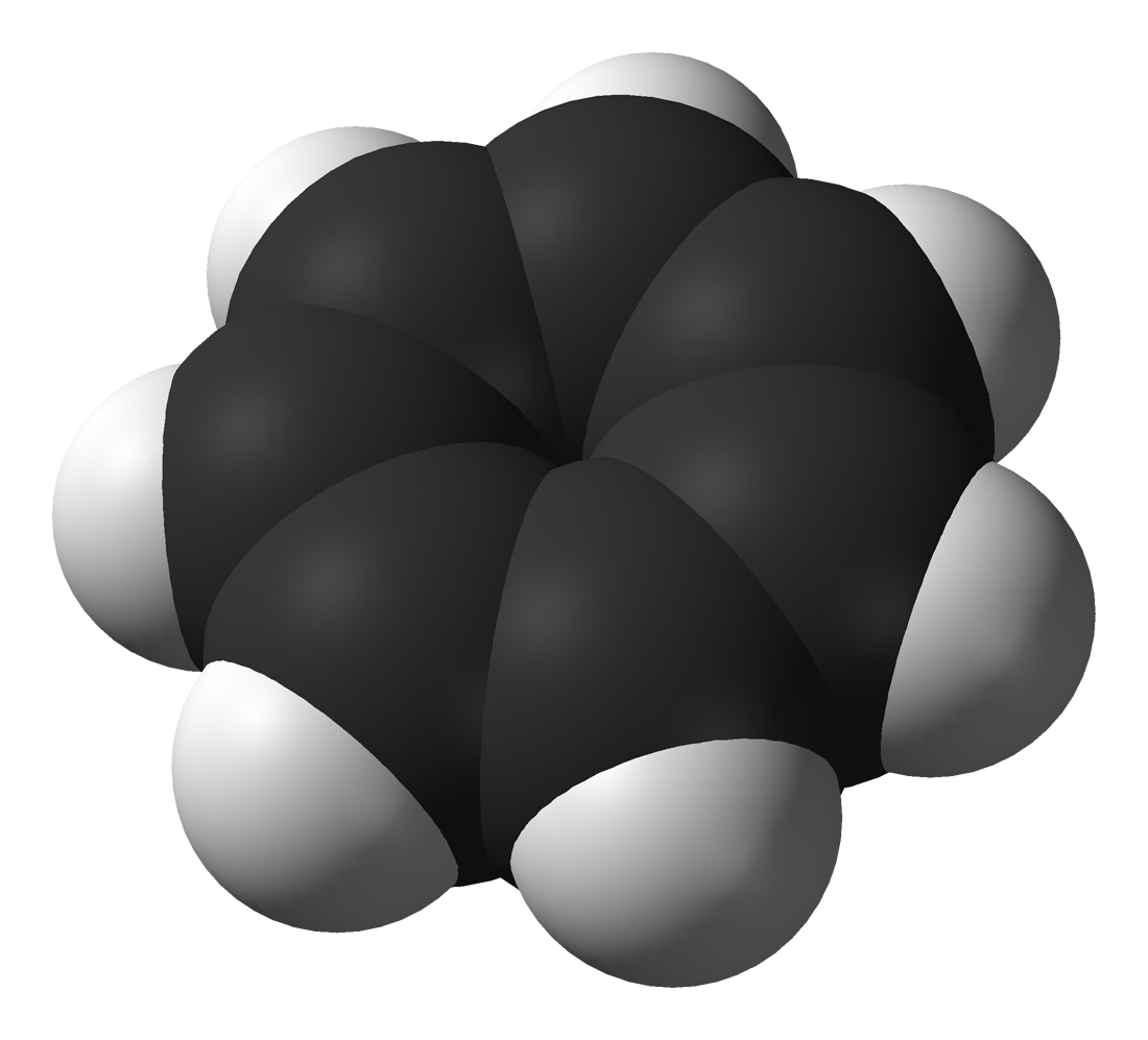 Space-filling model of the tropylium ion, [C7H7]+